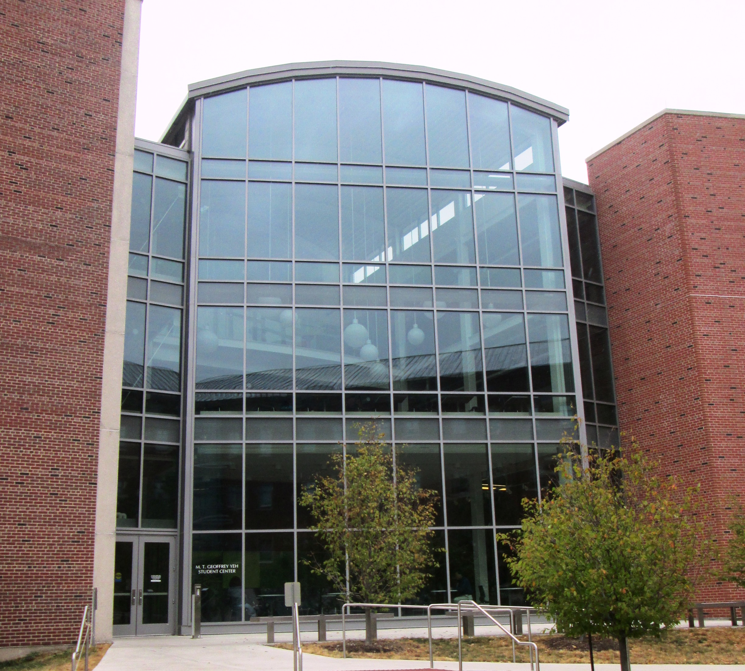 The Nathan M. Newmark Civil Engineering Laboratory, or Newmark Lab, located at 205 N. Mathews Avenue in Urbana, Illinois on the campus of the University of Illinois at Urbana-Champaign, houses the university's Department of Civil and Environmental Engineering. The Lab was built in 1967, and has been modified and updated a number of times since then. The facility was named after professor and department head Nathan M. Newmark. In 2011, the M. T. Geoffrey Yeh Student Center was added to the buildng.